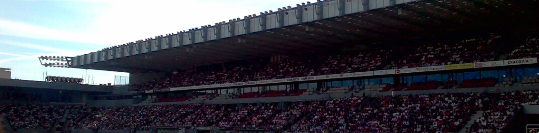 Conventions of Jehovah's Witnesses in Cracow 2016